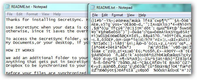 Picture demonstrating a regular text file and what it looks like encrypted